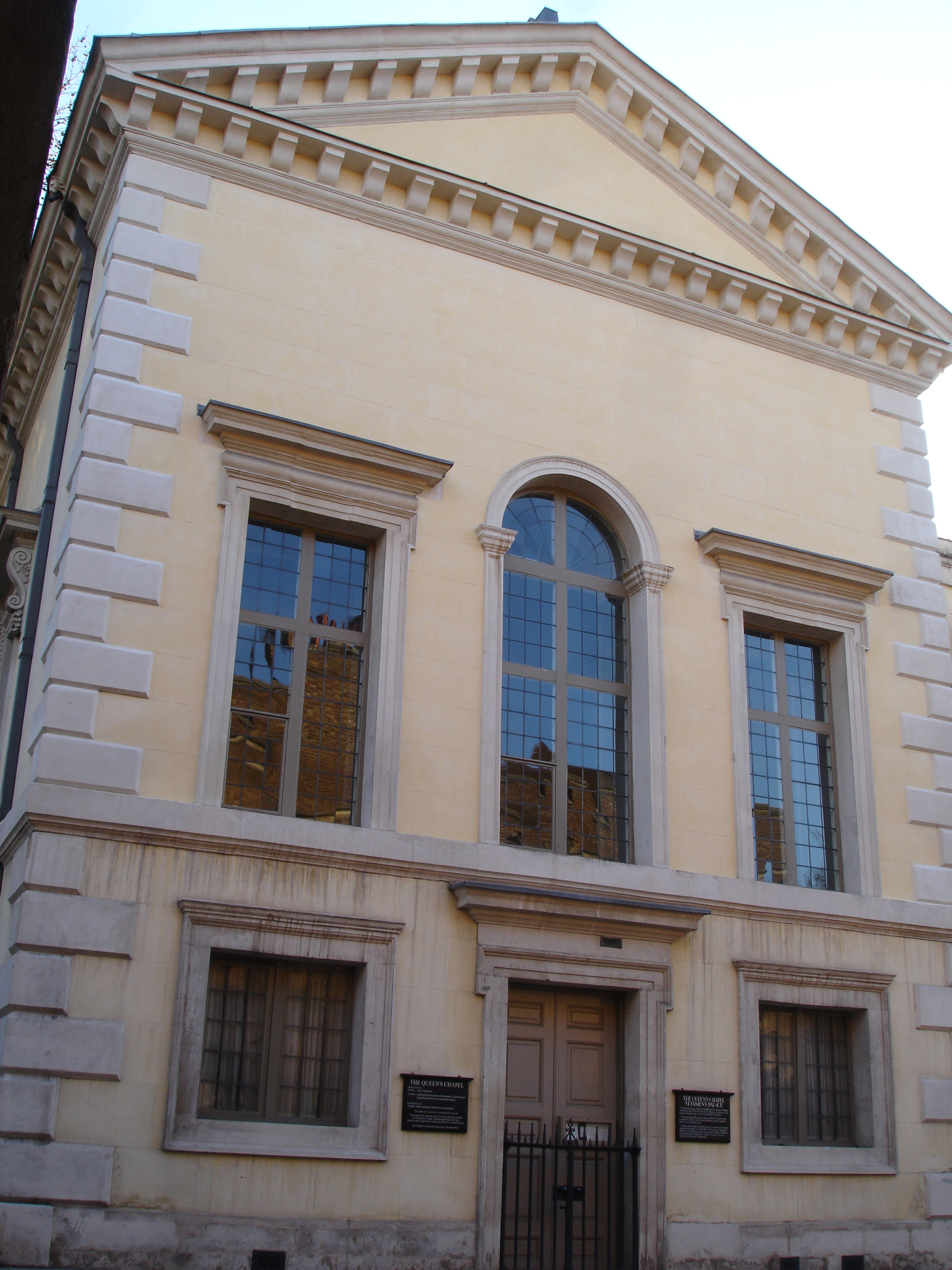 Queen's Chapel, London. Own Work March 2007